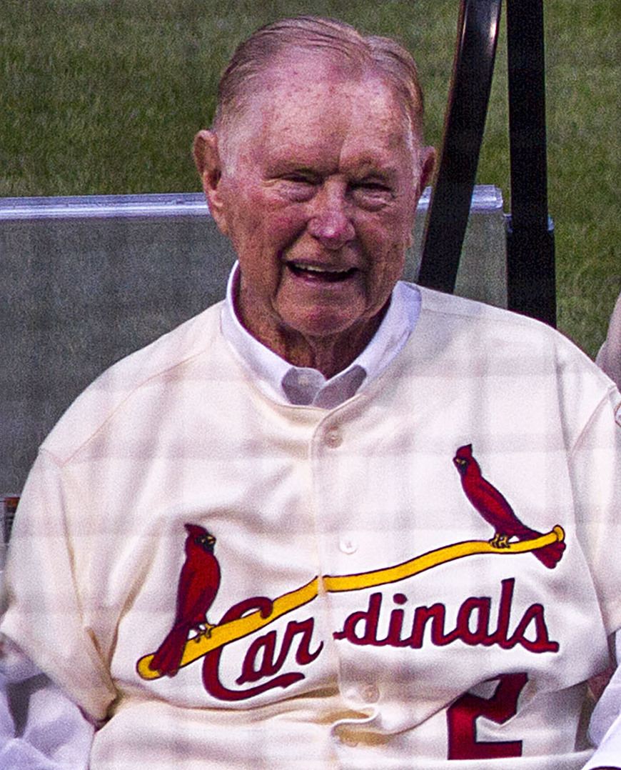 5-17-17 St.Louis Cardinals 1967 World Series Reunion.